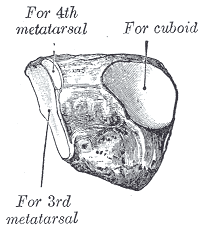 FIG. 283– The third left cuneiform. Antero-lateral view.